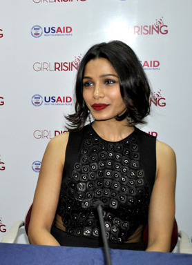 Actresses Priyanka Chopra and Freida Pinto at a promotional event of Girl Rising.